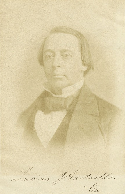 Portrait of Lucius Jeremiah Gartrell. c. 1858. Salted paper print, National Portrait Gallery Collection, Smithsonian Institution; Object number: S/NPG.77.69